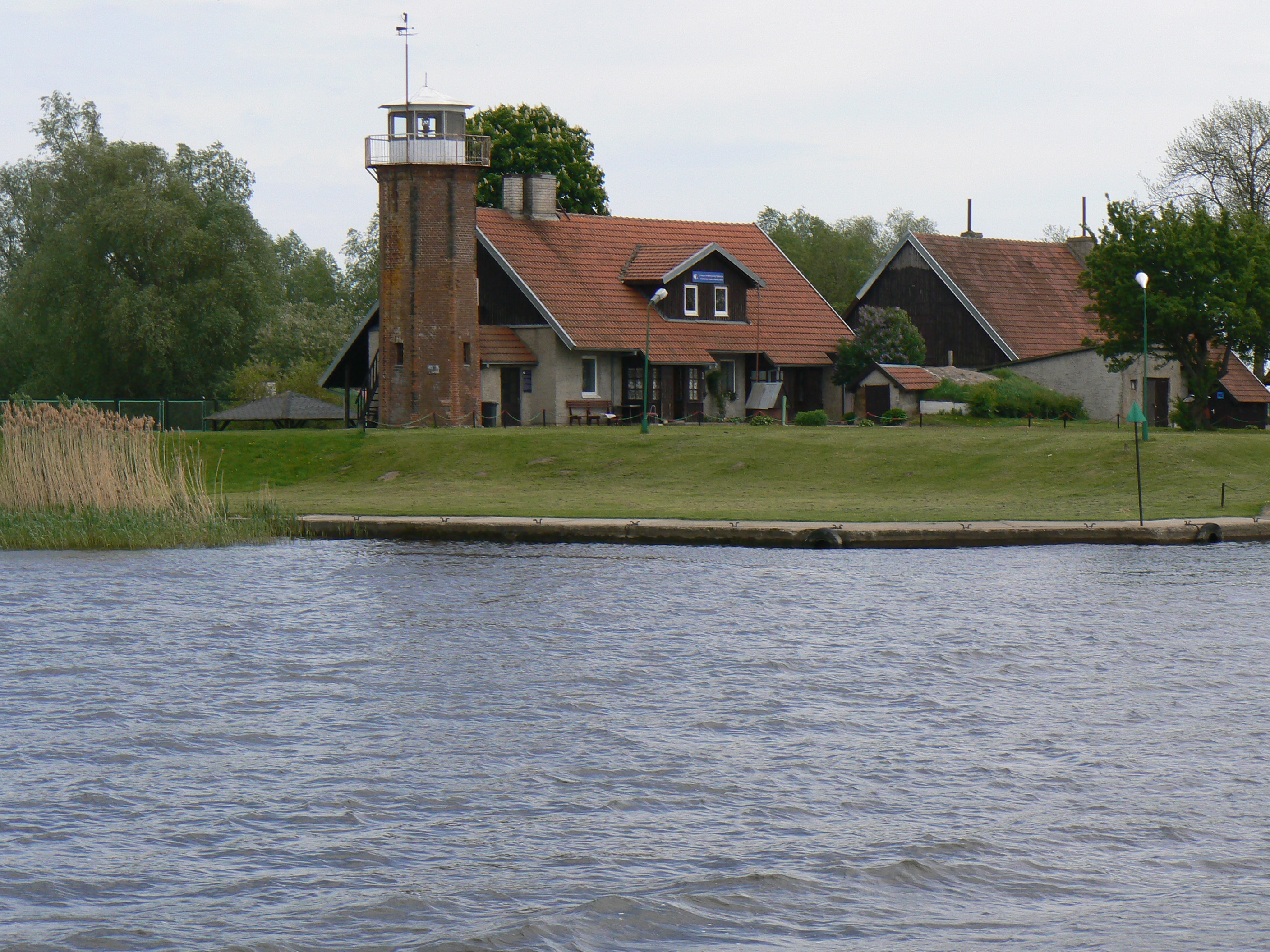 Uostadvaris lighthouse Česky: Maják v Uostadvarisu z ramene delty Němenu Atmaty.